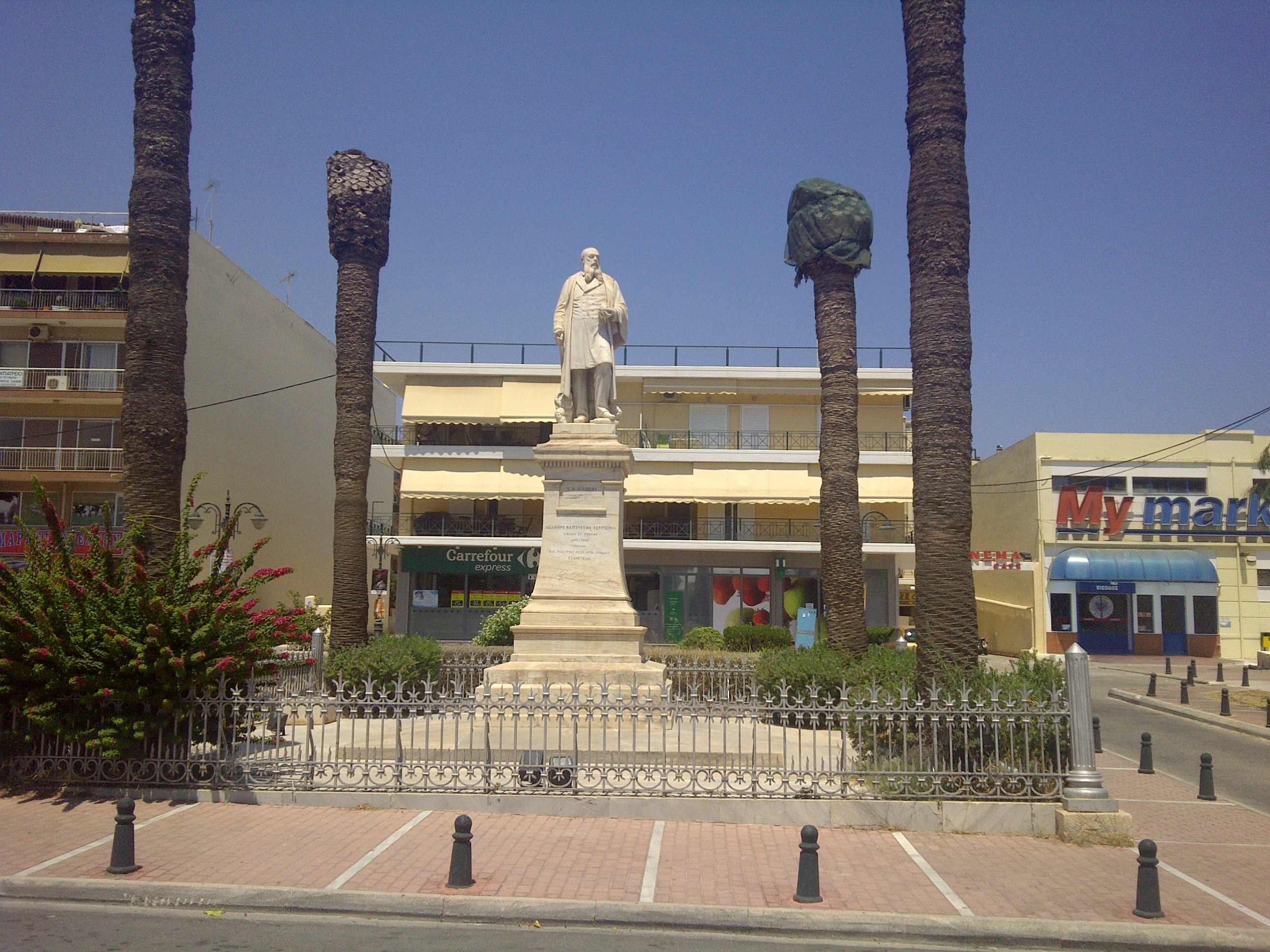 Statue of Giovanni Batista Serpieri in Lavrion, 2013, front view - far, sculpted by Georgios Vroutos, (1843 - 1909)